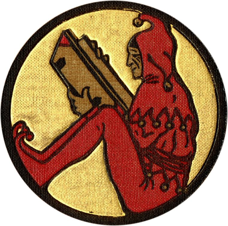 Jester reading a book